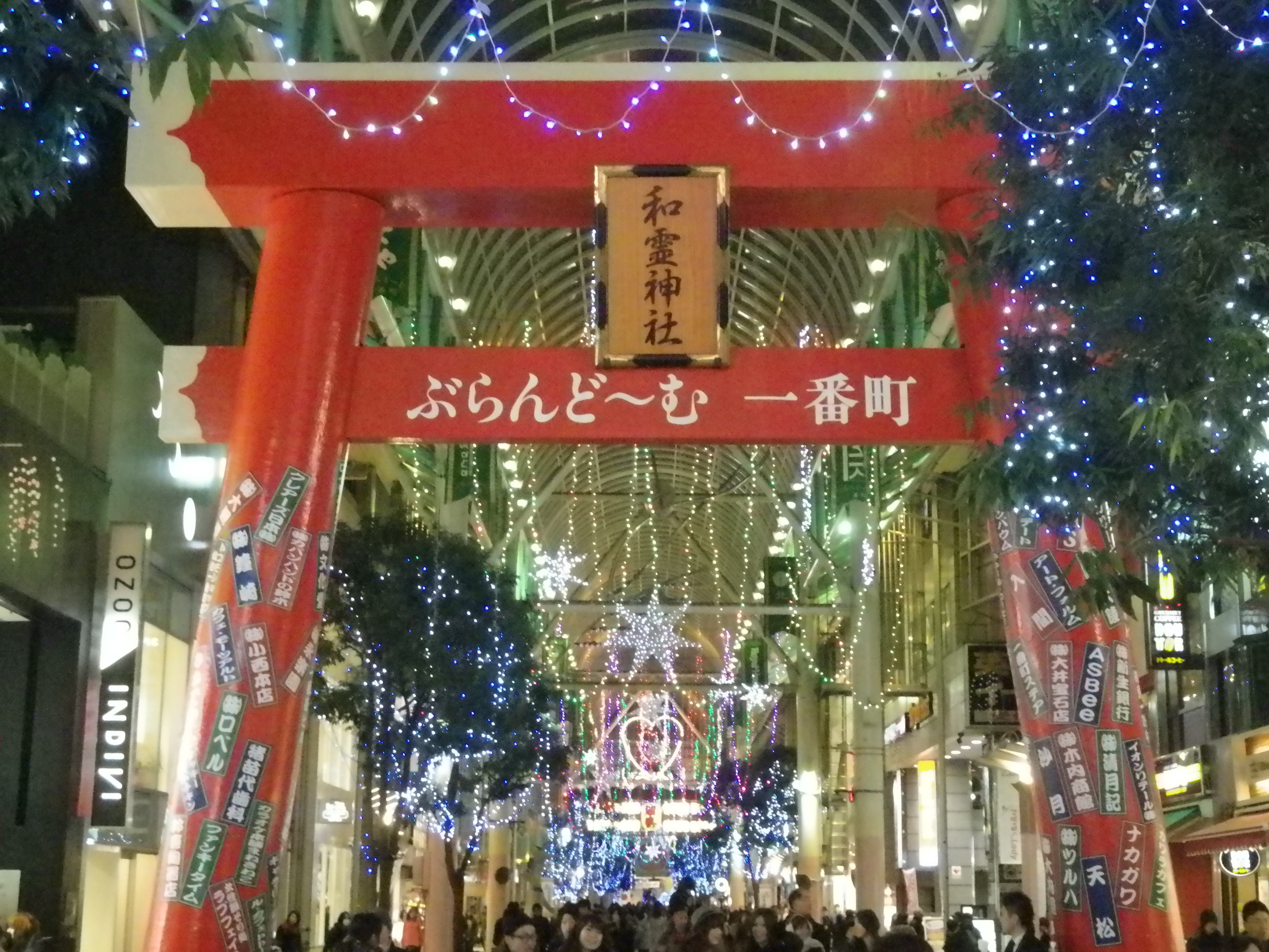 Christmas lights and a temporary Torii for new year celebration of Warei Jinja shrine in Vlandome Ichibanchō, Sendai